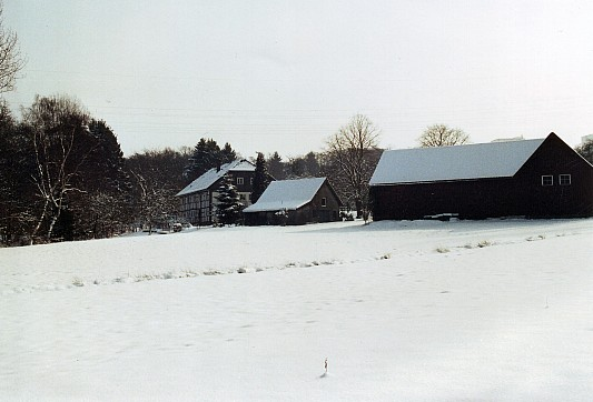 Hofschaft (Farmhouse) Unterste Hugenbruch in Wuppertal